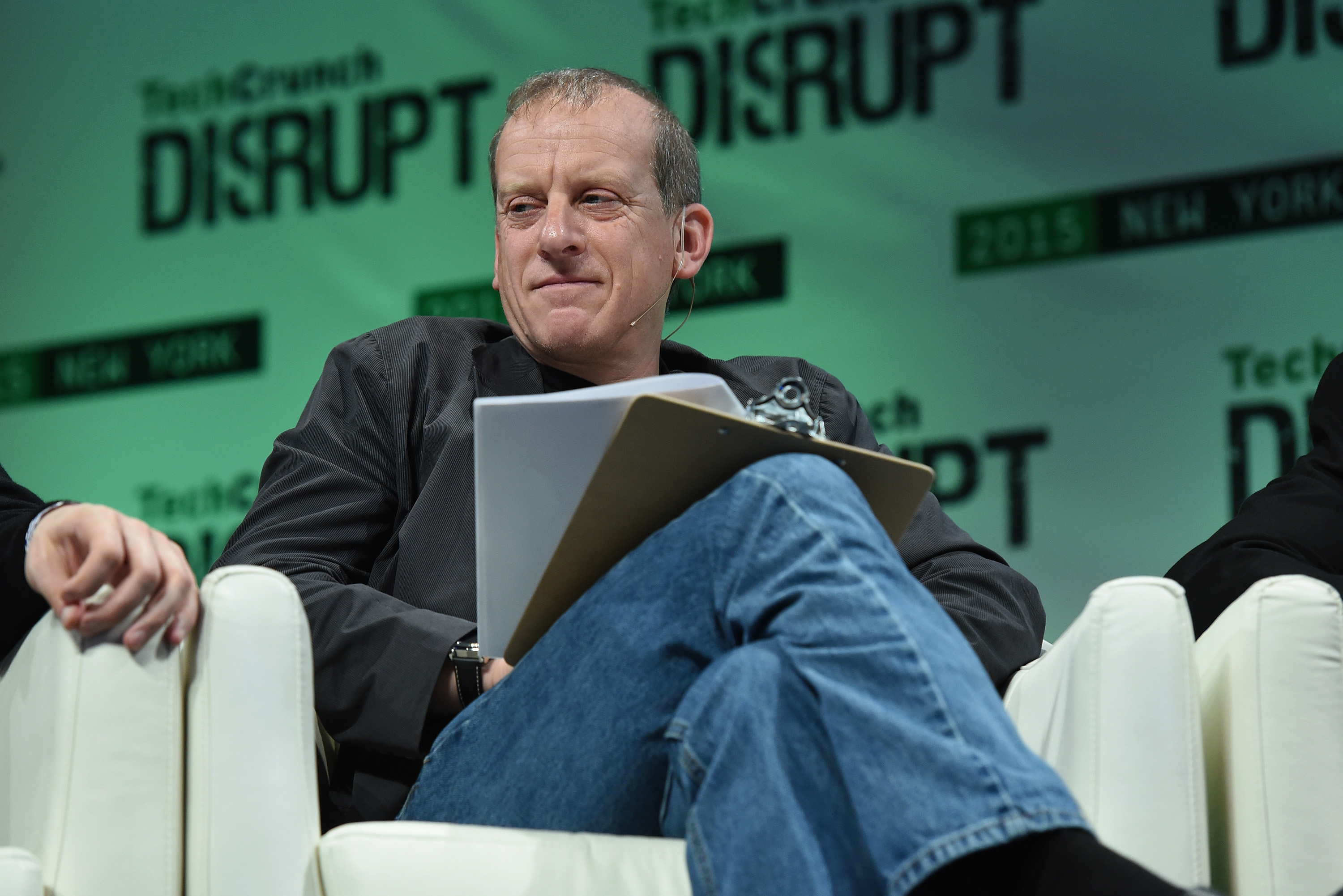 NEW YORK, NY - MAY 06: General Partner at Google Ventures, Rich Miner appears onstage during TechCrunch Disrupt NY 2015 - Day 3 at The Manhattan Center on May 6, 2015 in New York City. (Photo by Noam Galai/Getty Images for TechCrunch)